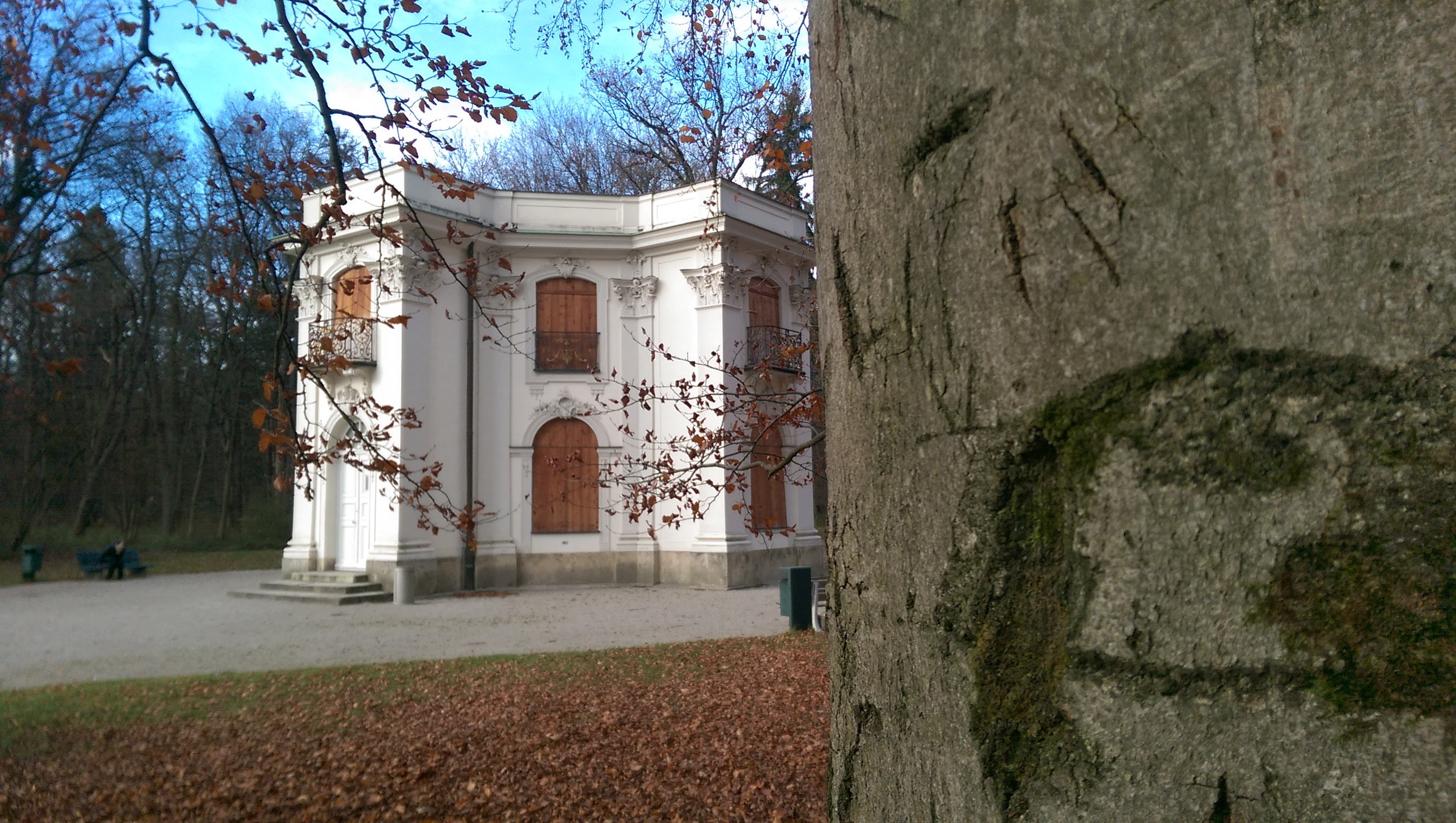 Pagode in Schloss Nymphenburg